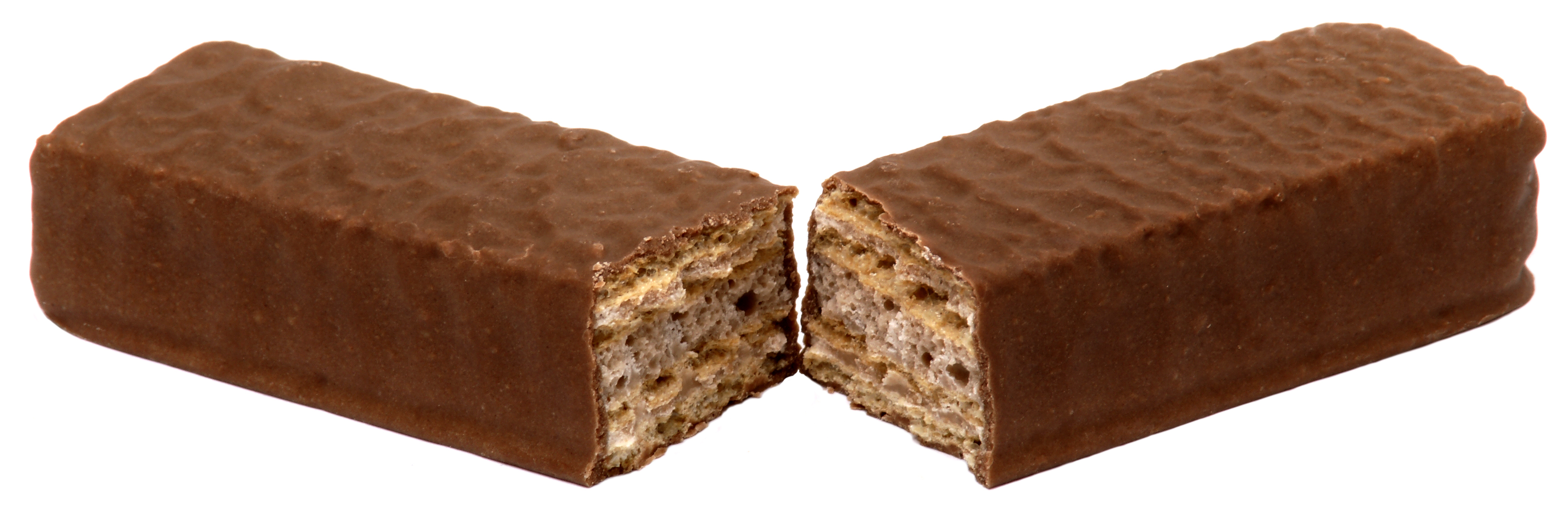 A Nestle Coffee Crisp candy bar split in half.